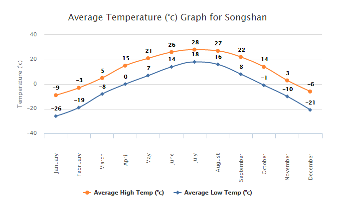 Average Temp in Songshan